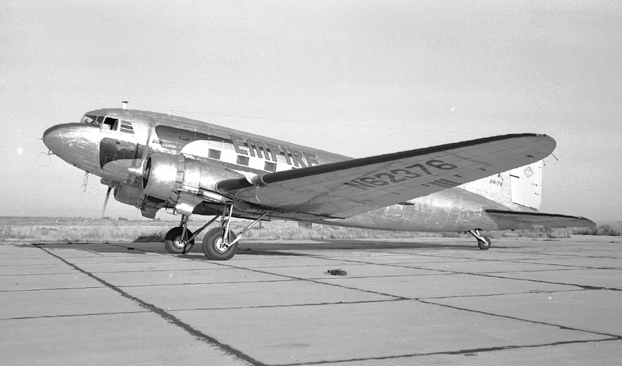 Empire Air Lines DC-3 N62376 taxiing for takeoff at Boise, Idaho in August 1952.